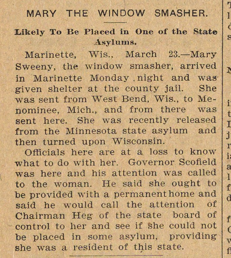 It is a picture of the original news paper article that talks about Mary Sweeny the window breaker.